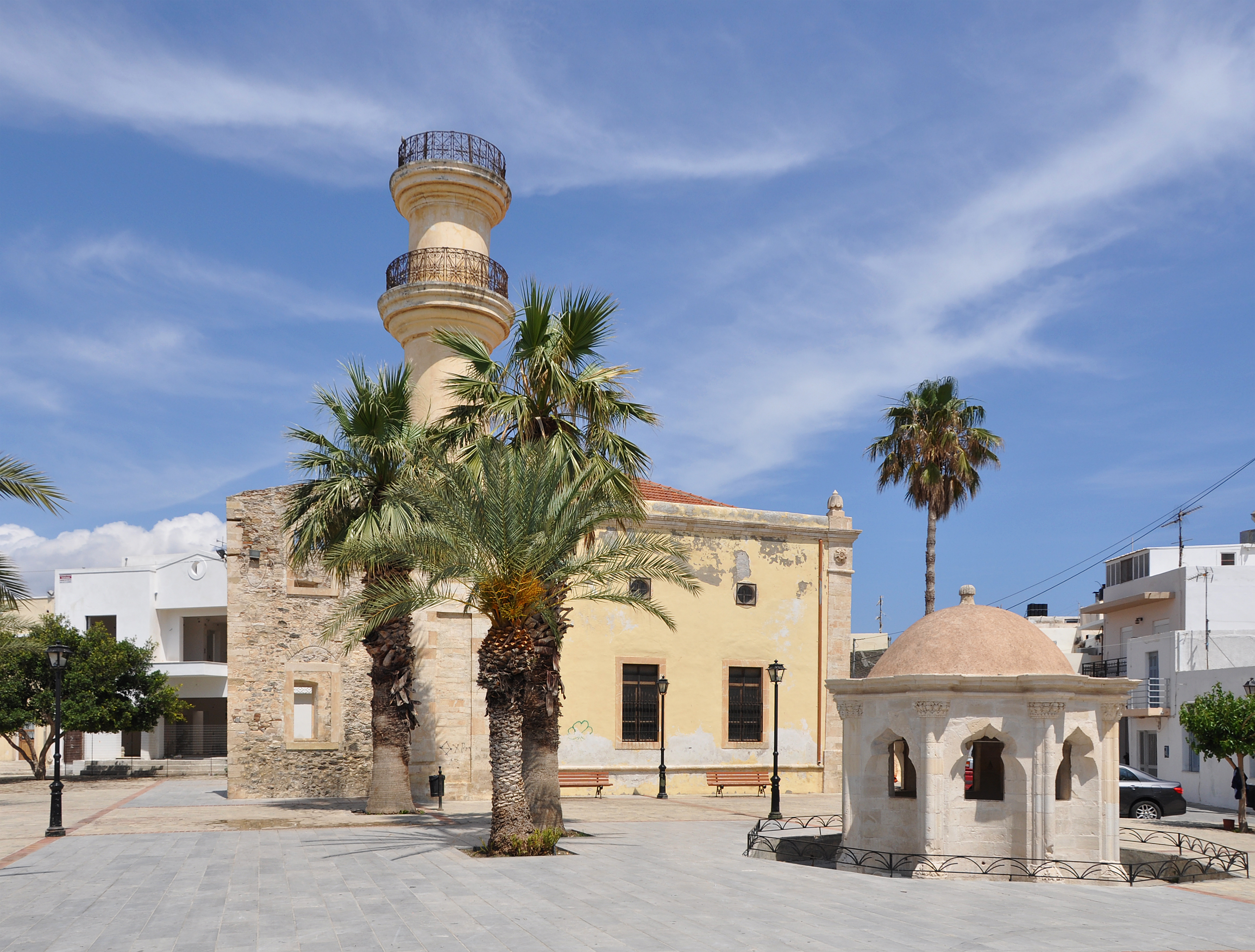 Ierapetra (Crete, Greece): old Turkish mosque and fountain